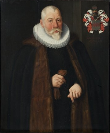 Portrait of Jacob Dircksz van Foreest (1556-1624)